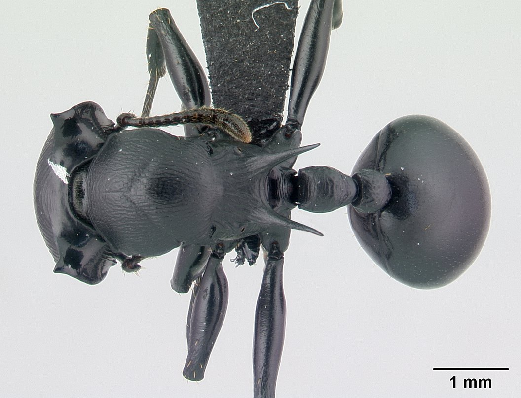 Dorsal view of ant Cataulacus oberthueri specimen casent0136347.